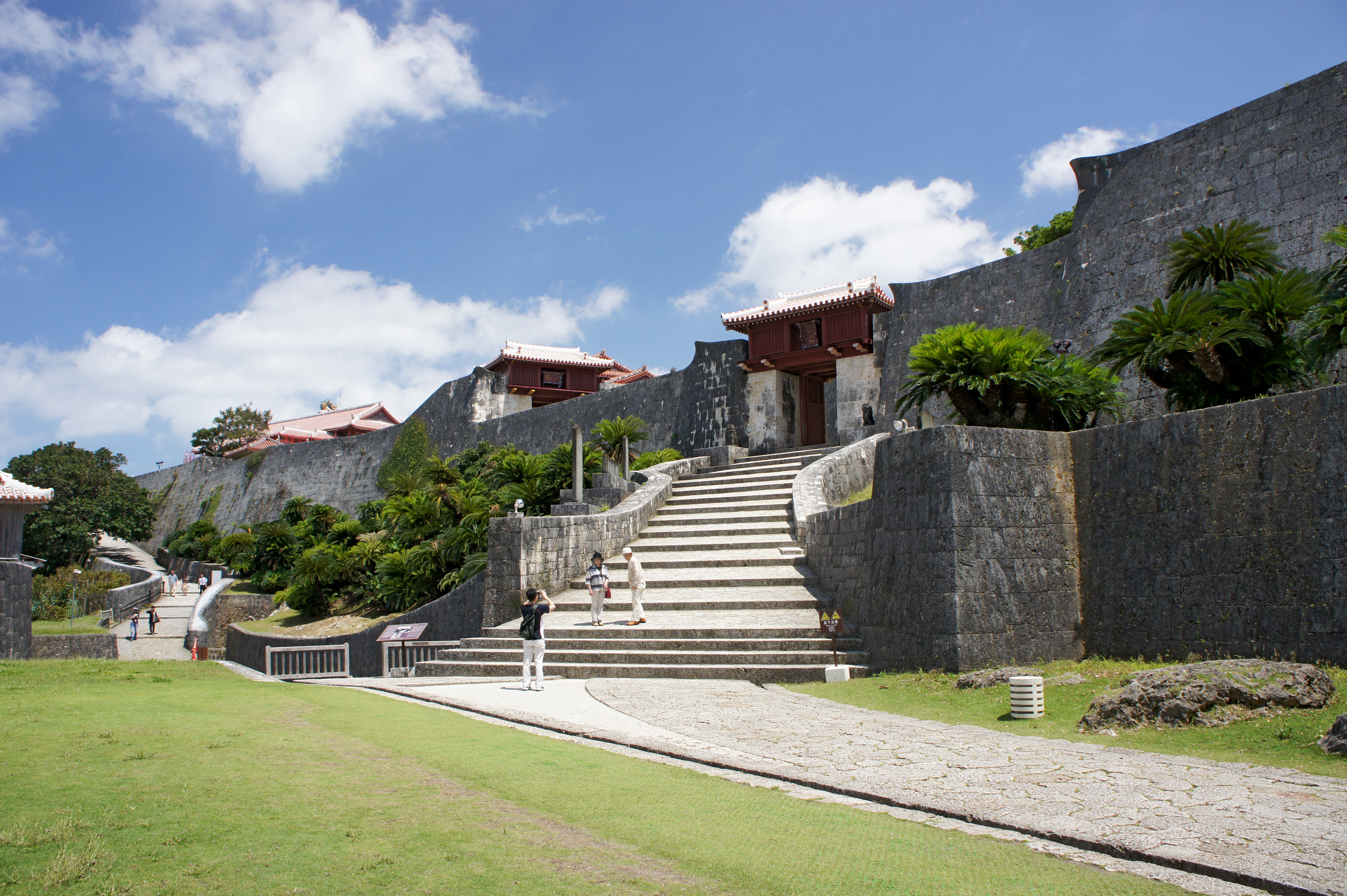 at Shuri Castle in Naha, Okinawa prefecture, Japan